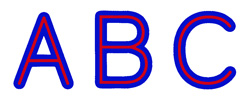 Two sets which are homotopic